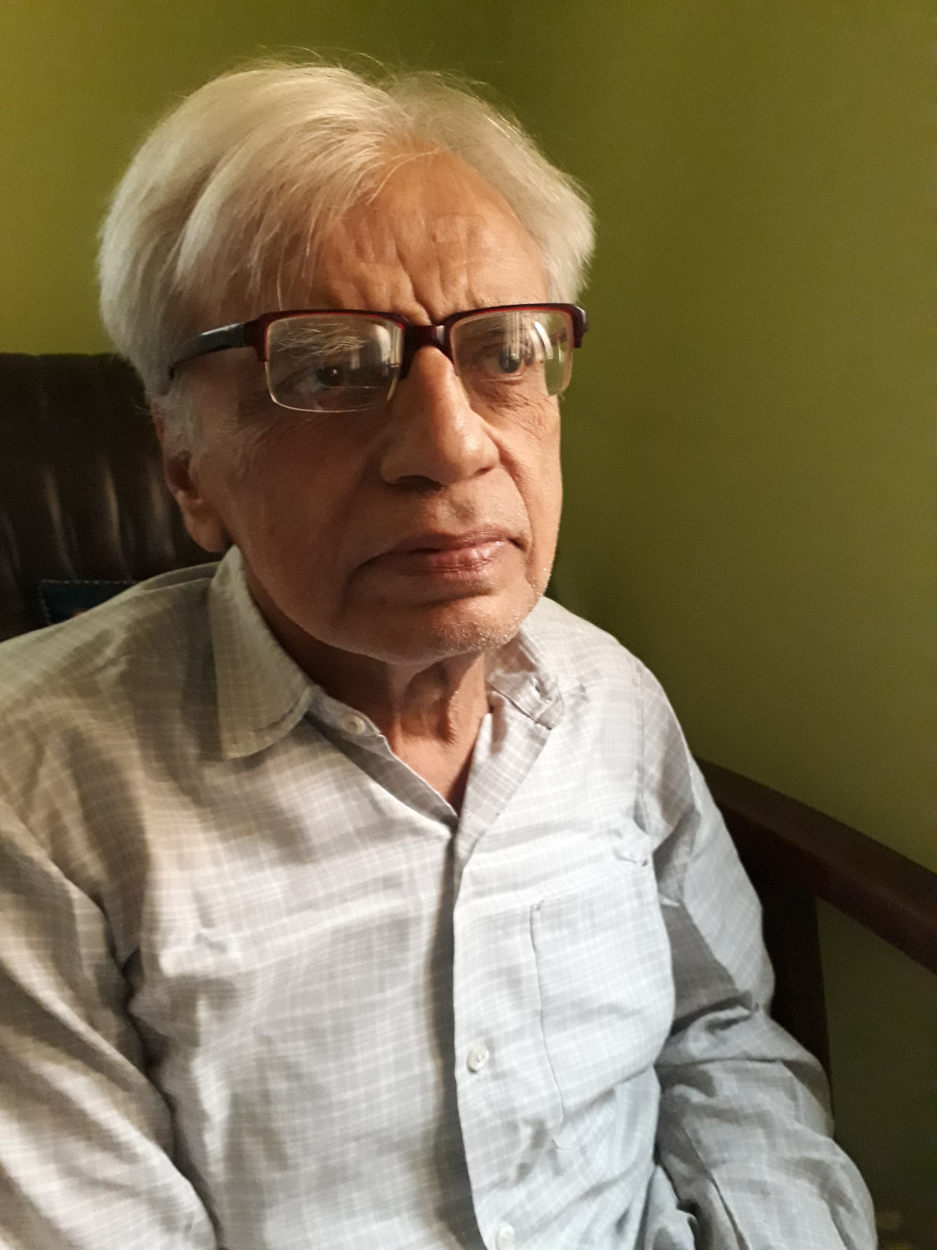 Gujarati writer Dhirendra Mehta at his home in Bhuj, Gujarat on 19 November 2017